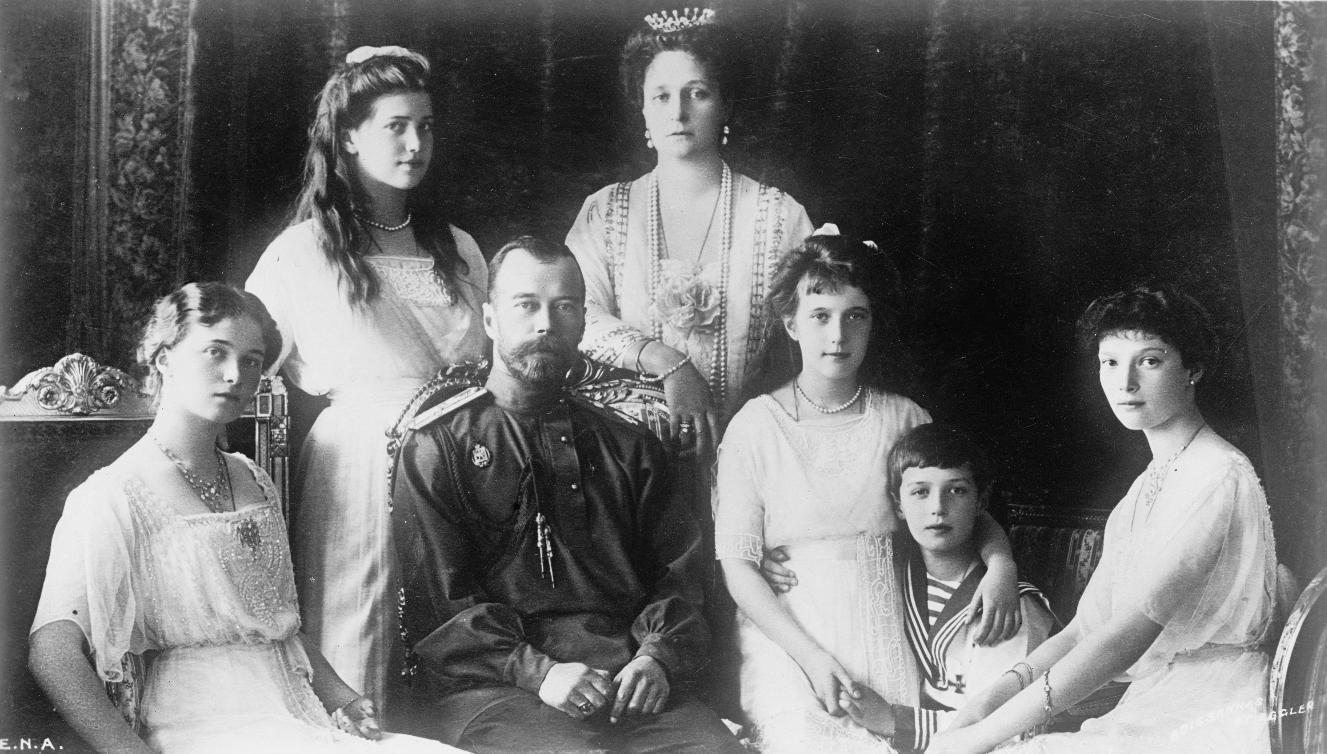 The family of Tsar Nicholas II of Russia. Left to right: Grand Duchess Olga, Grand Duchess Maria, Nicholas II, Alexandra, Grand Duchess Anastasia, Tsarevich Alexei, Grand Duchess Tatiana.